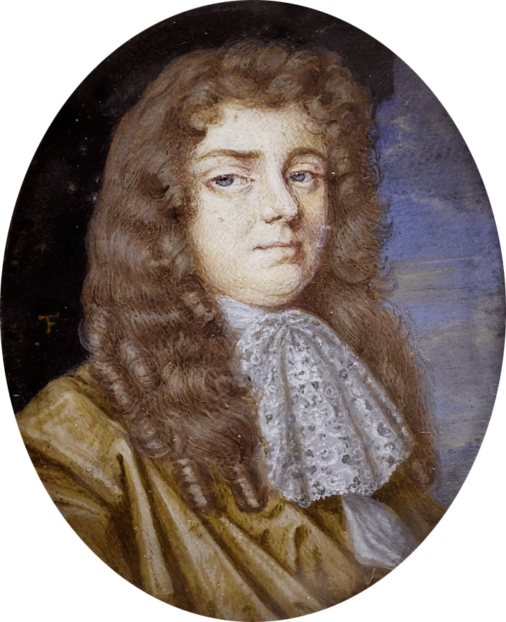 William Russell, Lord Russell (1639-1683) watercolour on vellum signed l.c.: TF